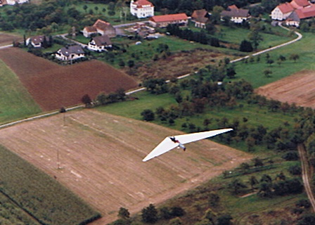 Boehm Schmankerl Flying Wing